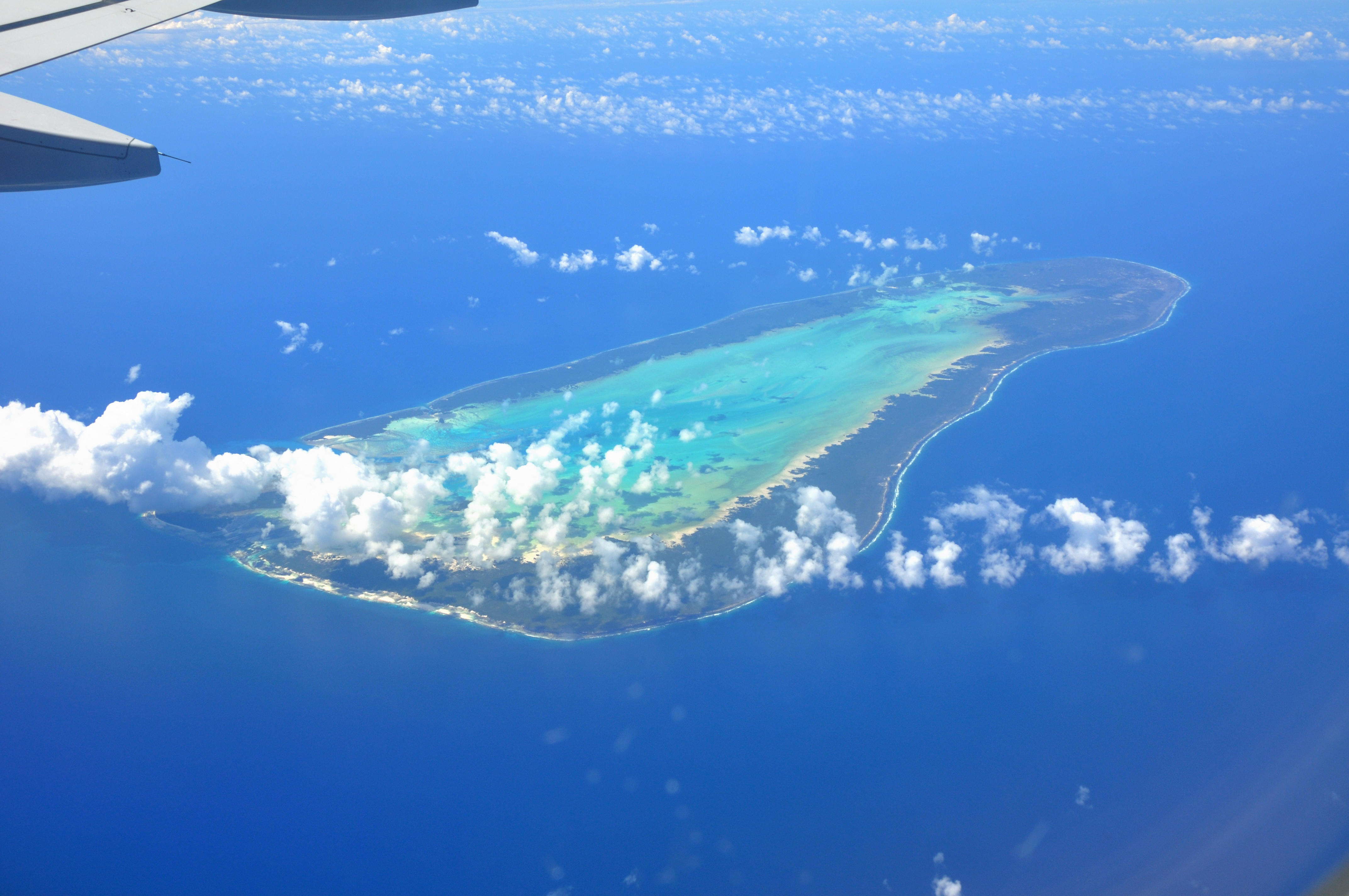 The Aldabra Islands form the largest lagoon in the Indian Ocean. The length is 34 km and the width is 14.5 km. The islands are a UN world heritage and not inhabited.